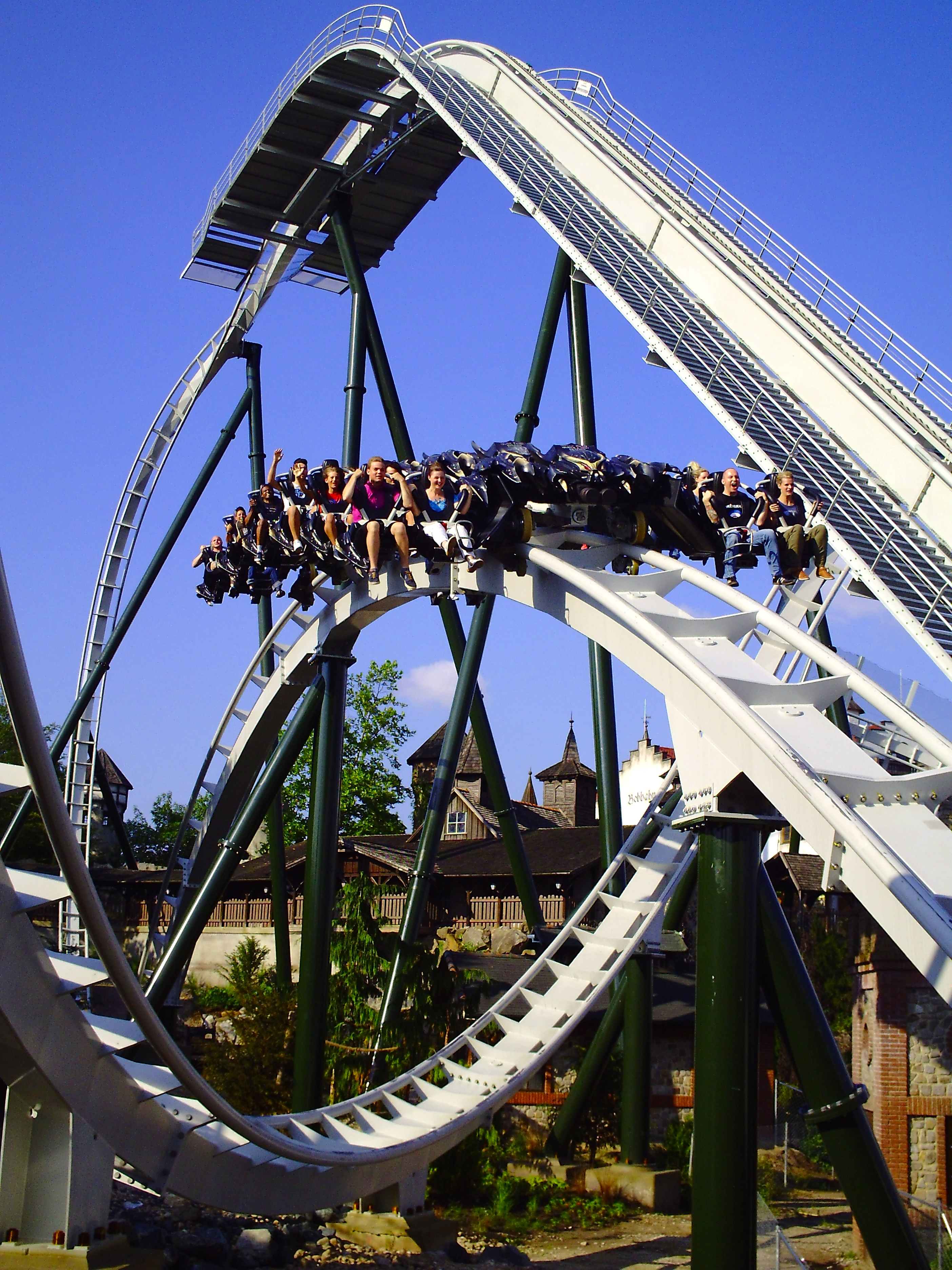 The image shows the camelback of the roller coaster Flug der Dämonen at Heide-Park.